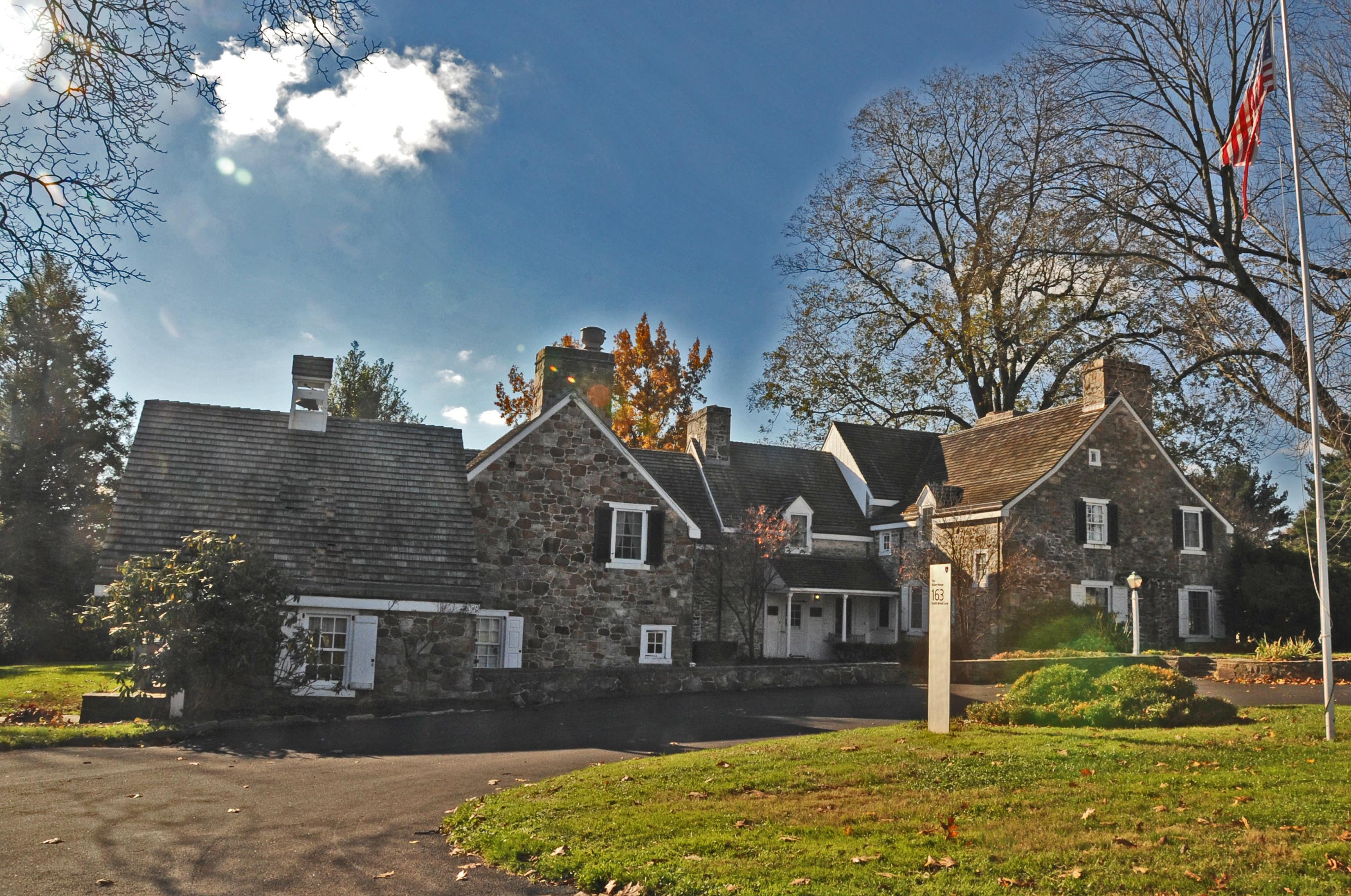 SOUTH BROOK FARM; FIRST PORTION BUILT IN 1717 FOR CALEB PUSEY; RESTORED AND ENLARGED FOR CHARLES A HIGGINS IN 1940. PURCHASED IN 1952 BY THE UNIVERSITY OF PENNSYLVANIA FOR THEIR SCHOOL OF VETERINARY MEDICINE AND NOW KNOWN AS NEW BOLTON CENTER